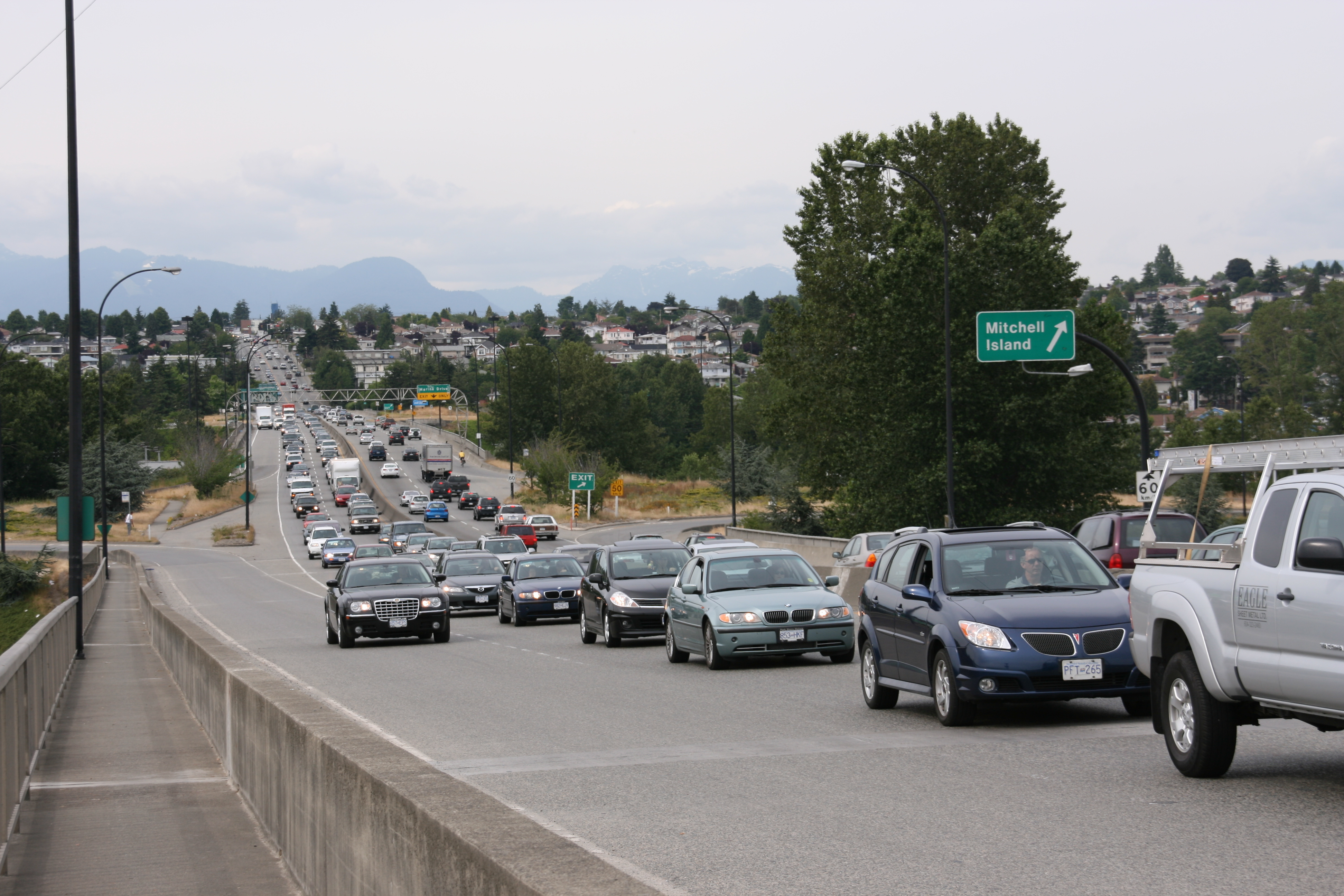 A picture of the Knight Street Bridge